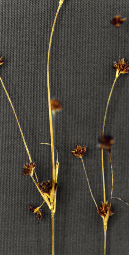 Juncus alpinoarticulatus Chaix ssp. nodulosus (Wahlenb.) Hämet-Ahti - northern green rush